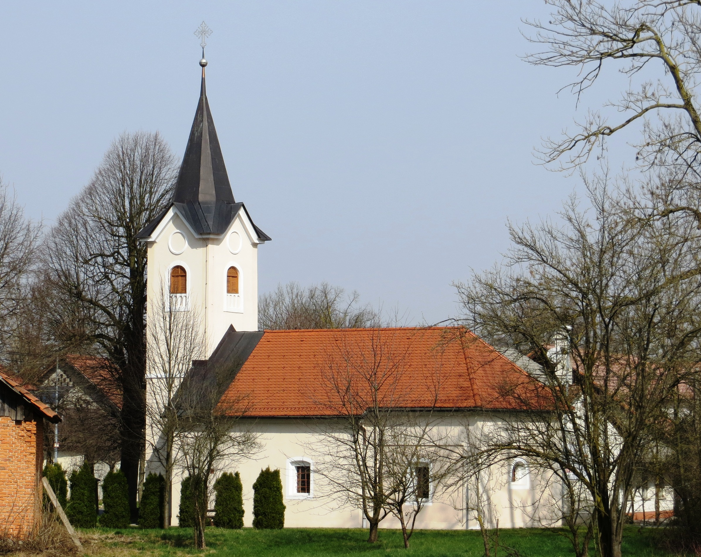 Church in Brest, Municipality of Ig, Slovenia